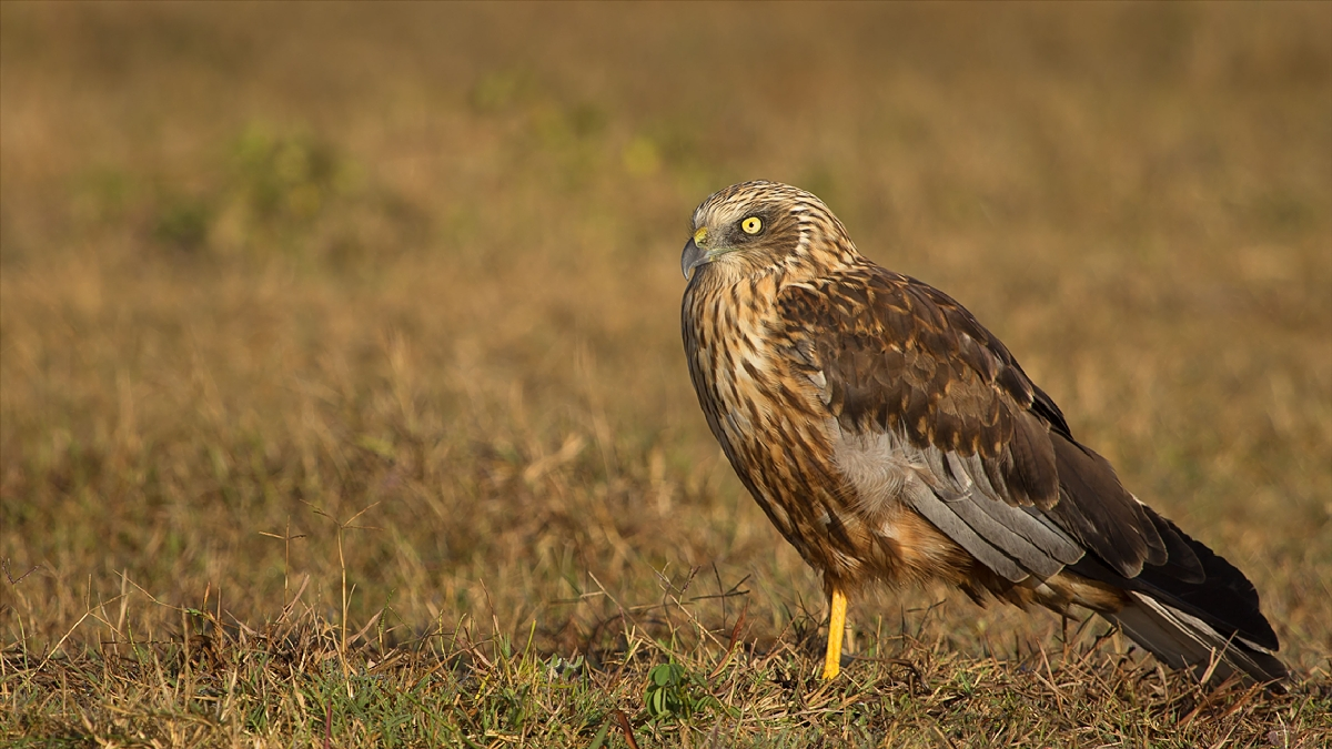 An adult at Category:Hessarghatta Lake